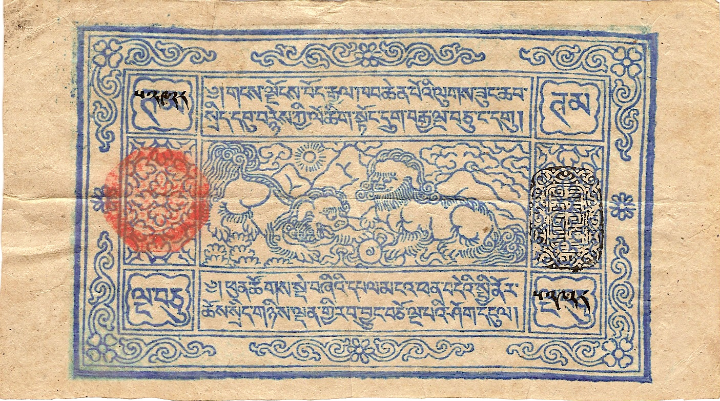 Tibetan 50 tam banknotes, dated T.E. 1659 (= AD 1913, face